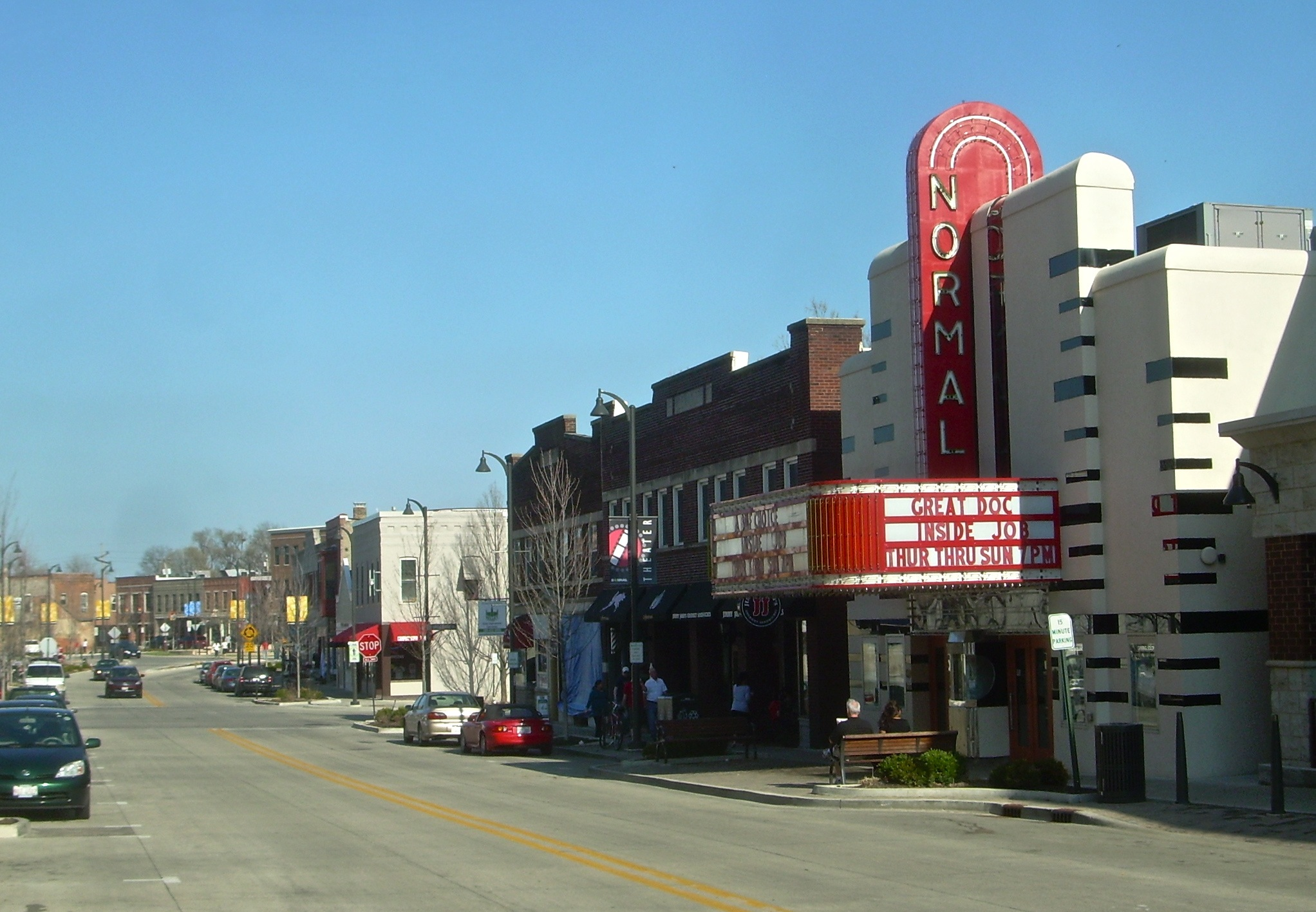 The town of Normal, Illinois looking east on North Street. The historic Normal Theater is in the foreground.